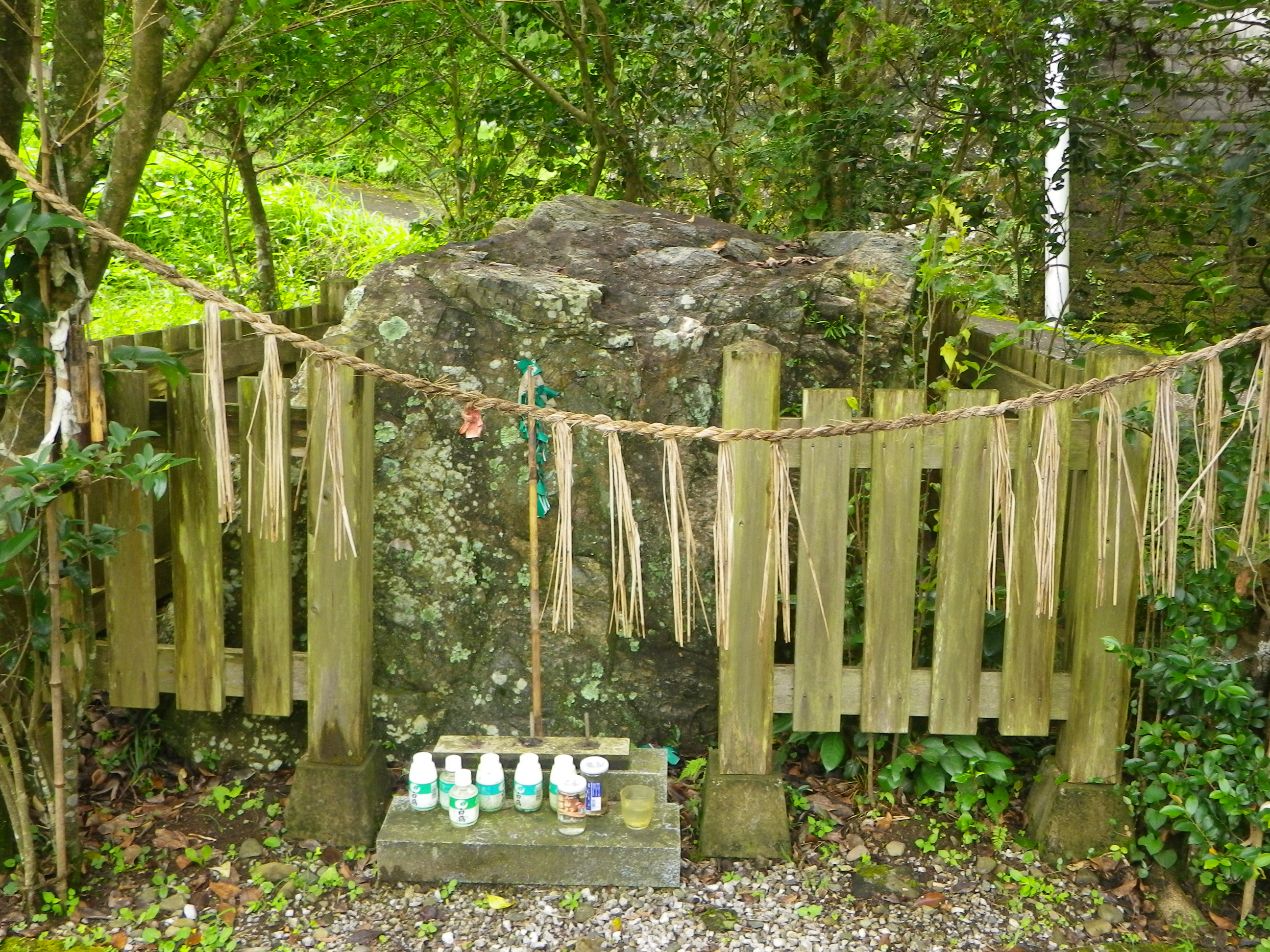 Kushifuru jinjya shrine Yonakiishi stone